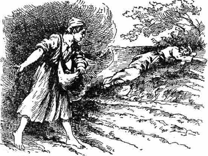 Croped version of M. Bihn & J. Bealings